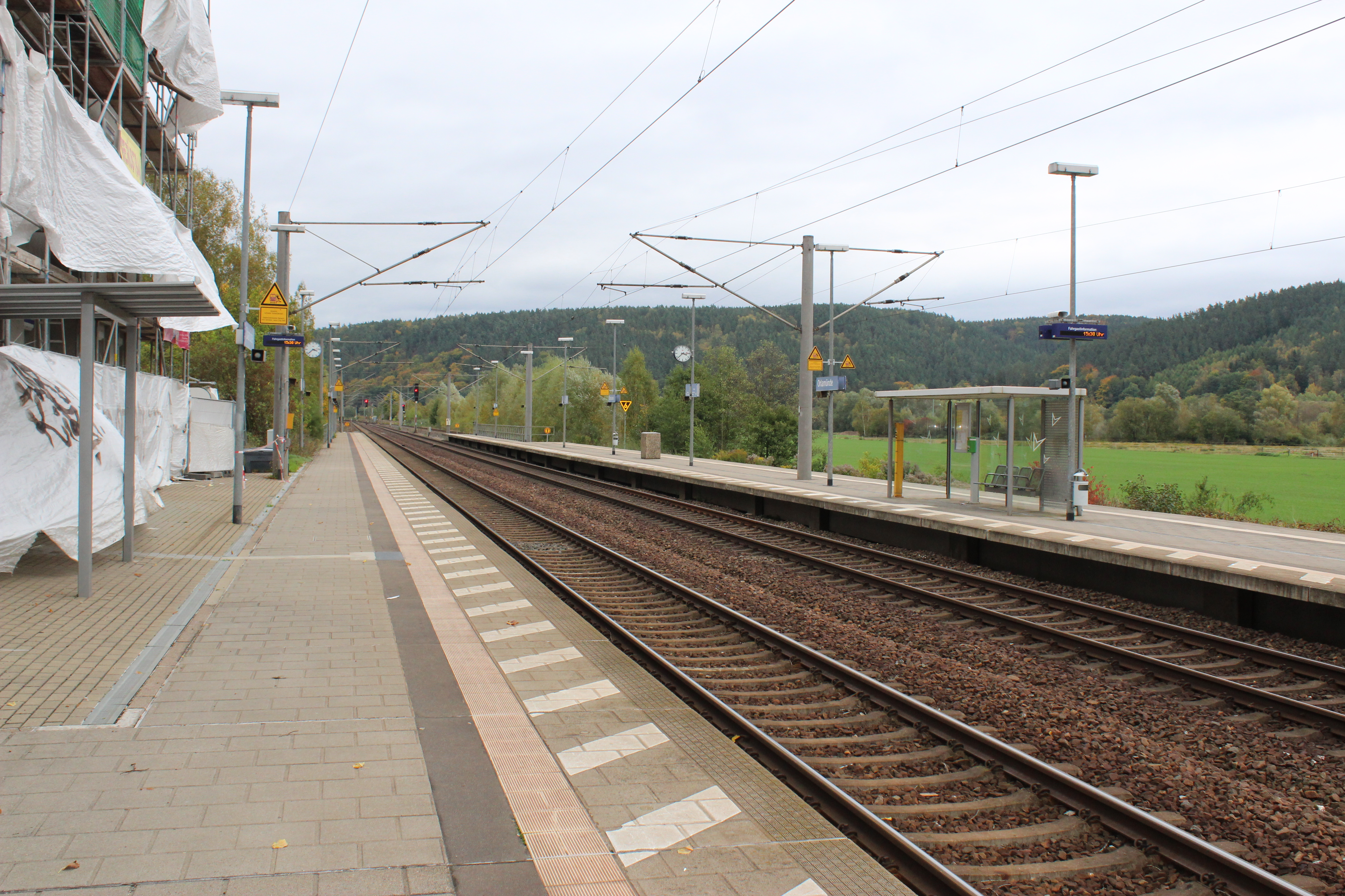 train station Orlamünde, platforms